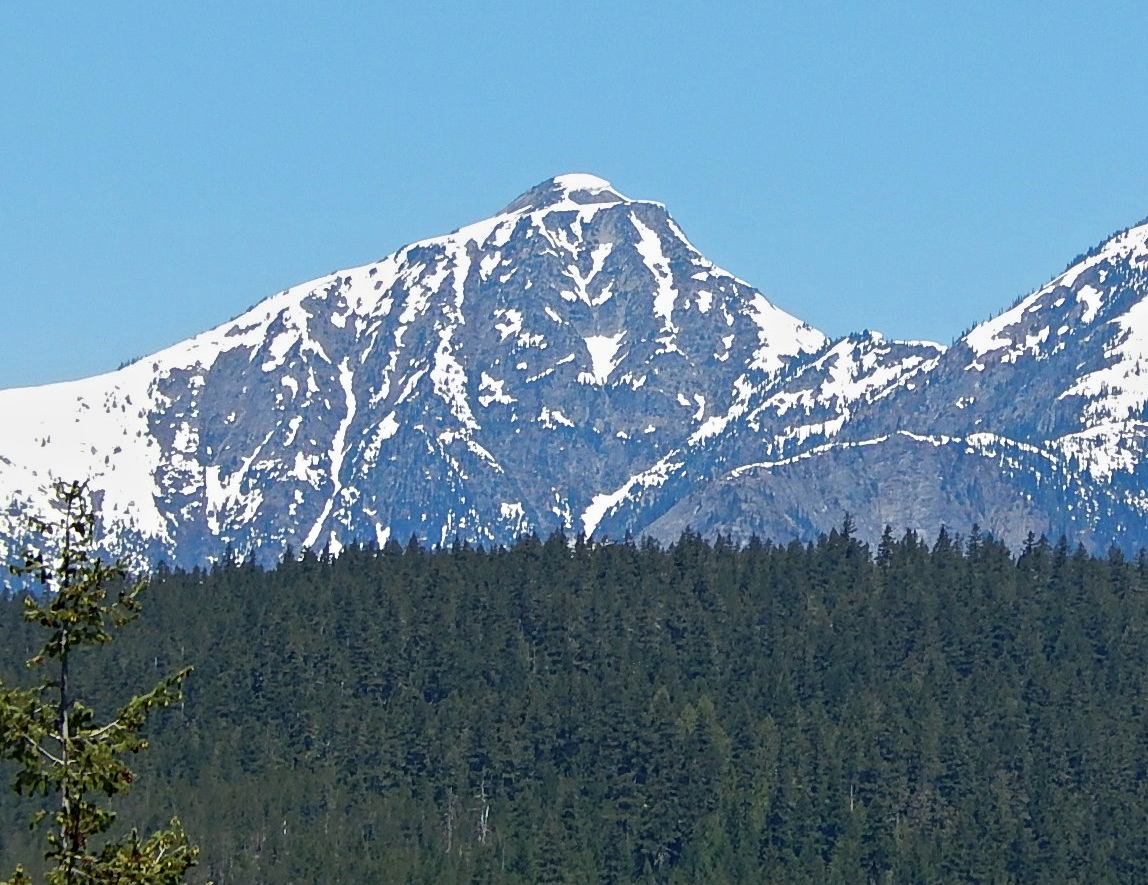 Genesis Peak, North Cascades, seen from Highway 20